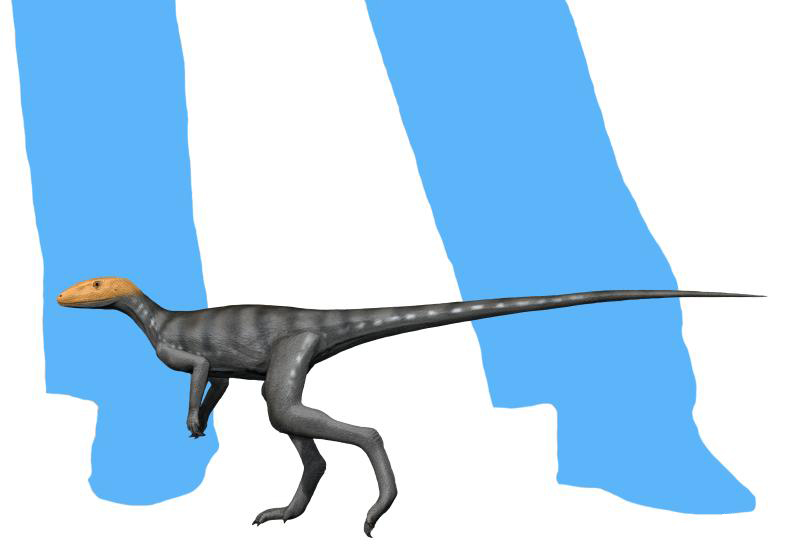 Life reconstruction of Marasuchus lilloensis